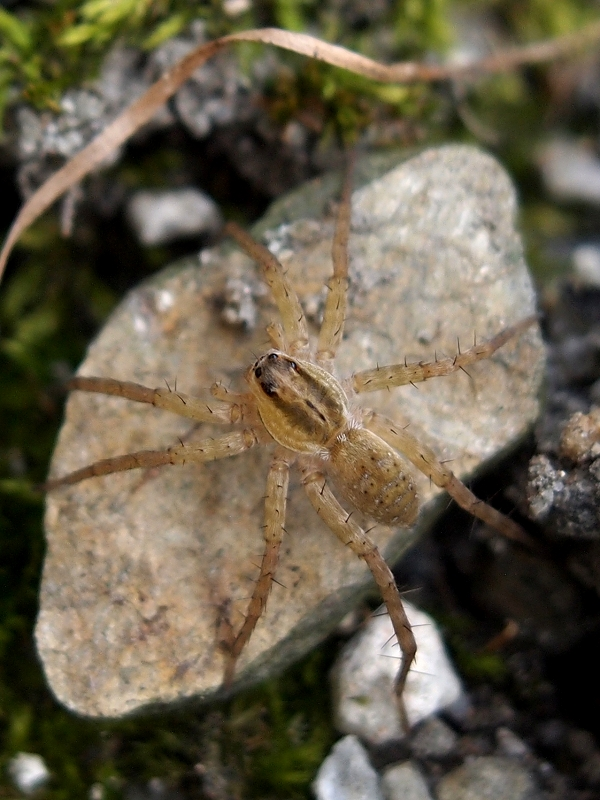 Pardosa pseudoannulata in Yamaguchi, Japan.